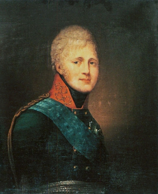 Feodosiy Yanenko. Alexander I of Russia.